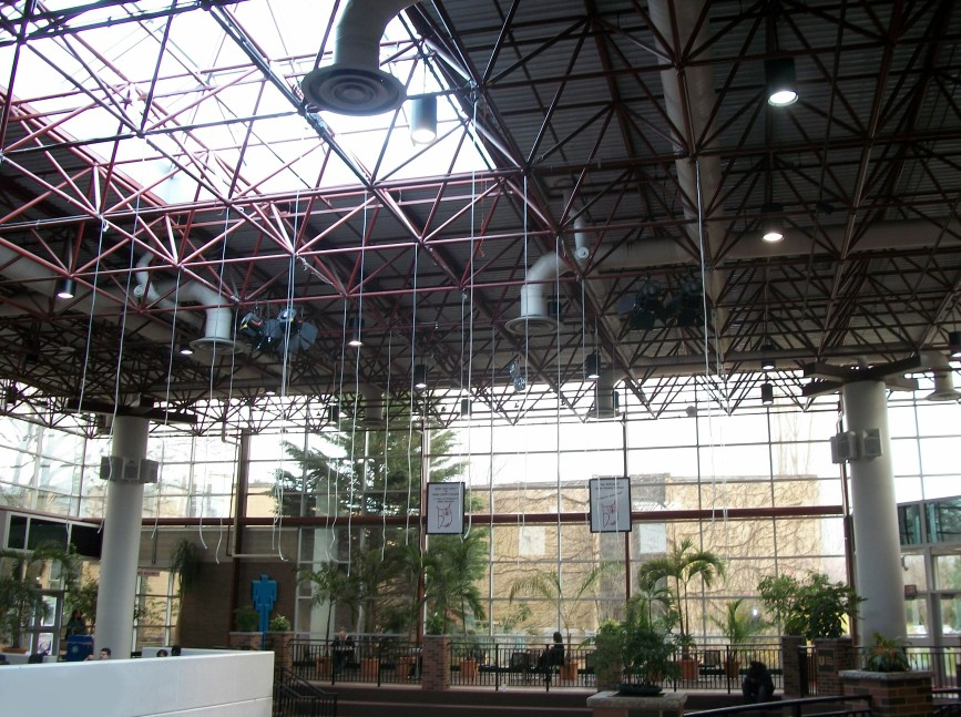 Union County College. The student center is in the middle of the large Nomahegan building. A cafeteria is nearby. Different events are held in this space.